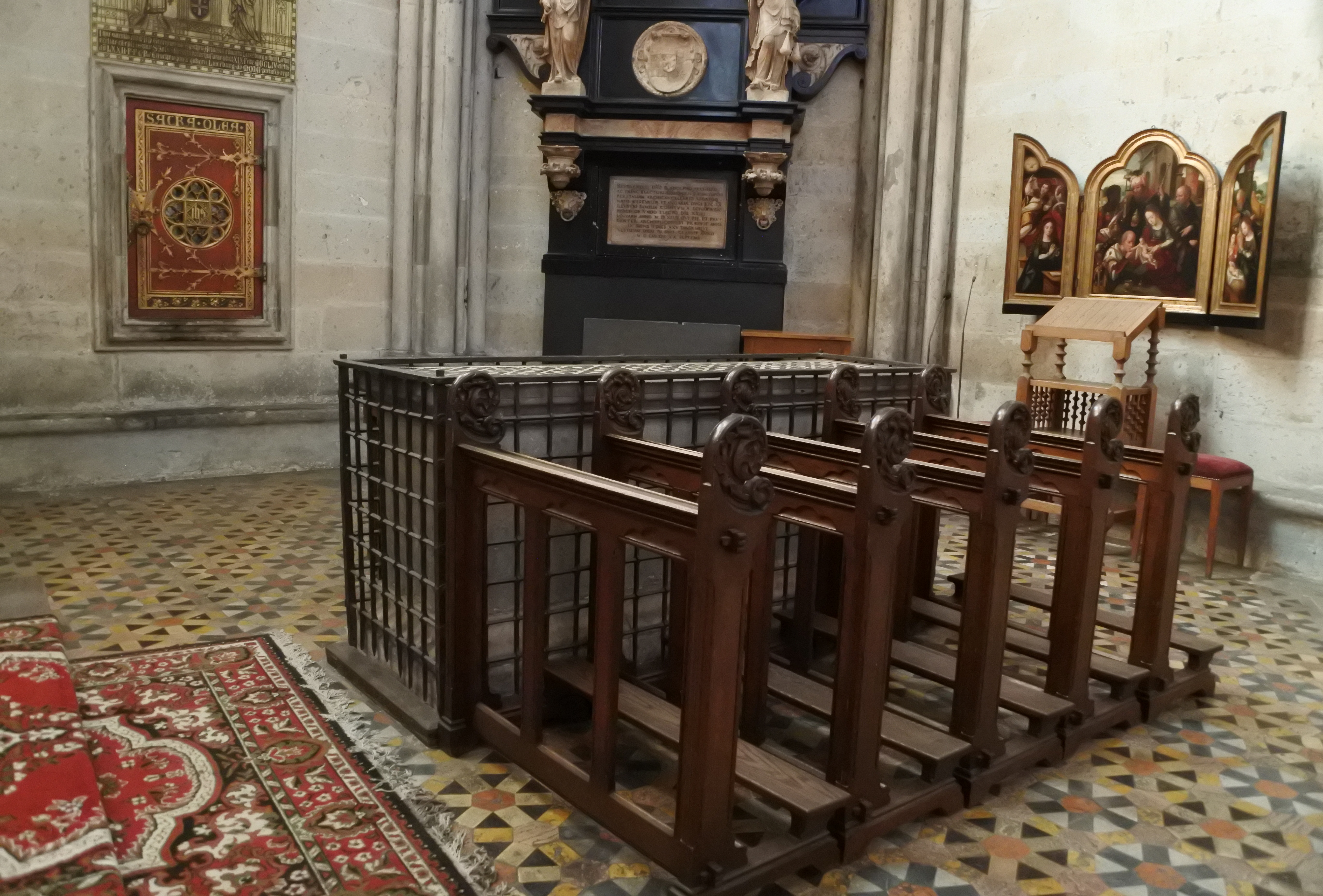 Tomb of Archbishop Gero, at the Chapel of St. Stephen, Cologne Cathedral